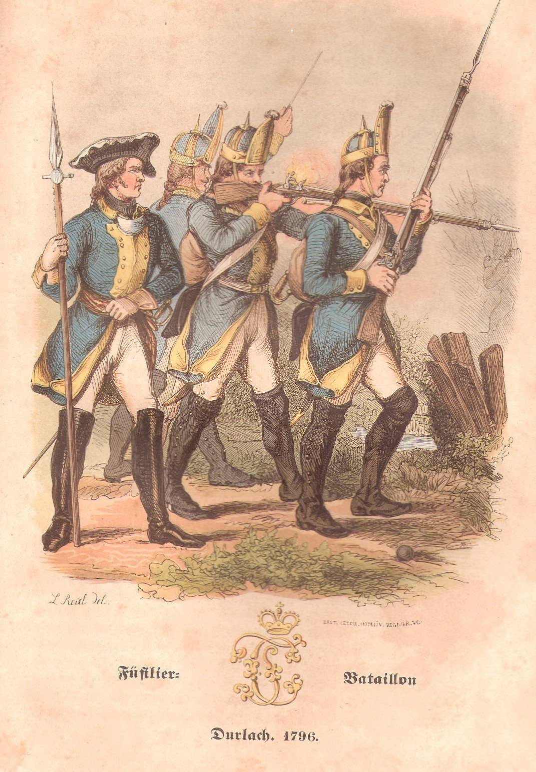 Lithographie von Lucian Reich